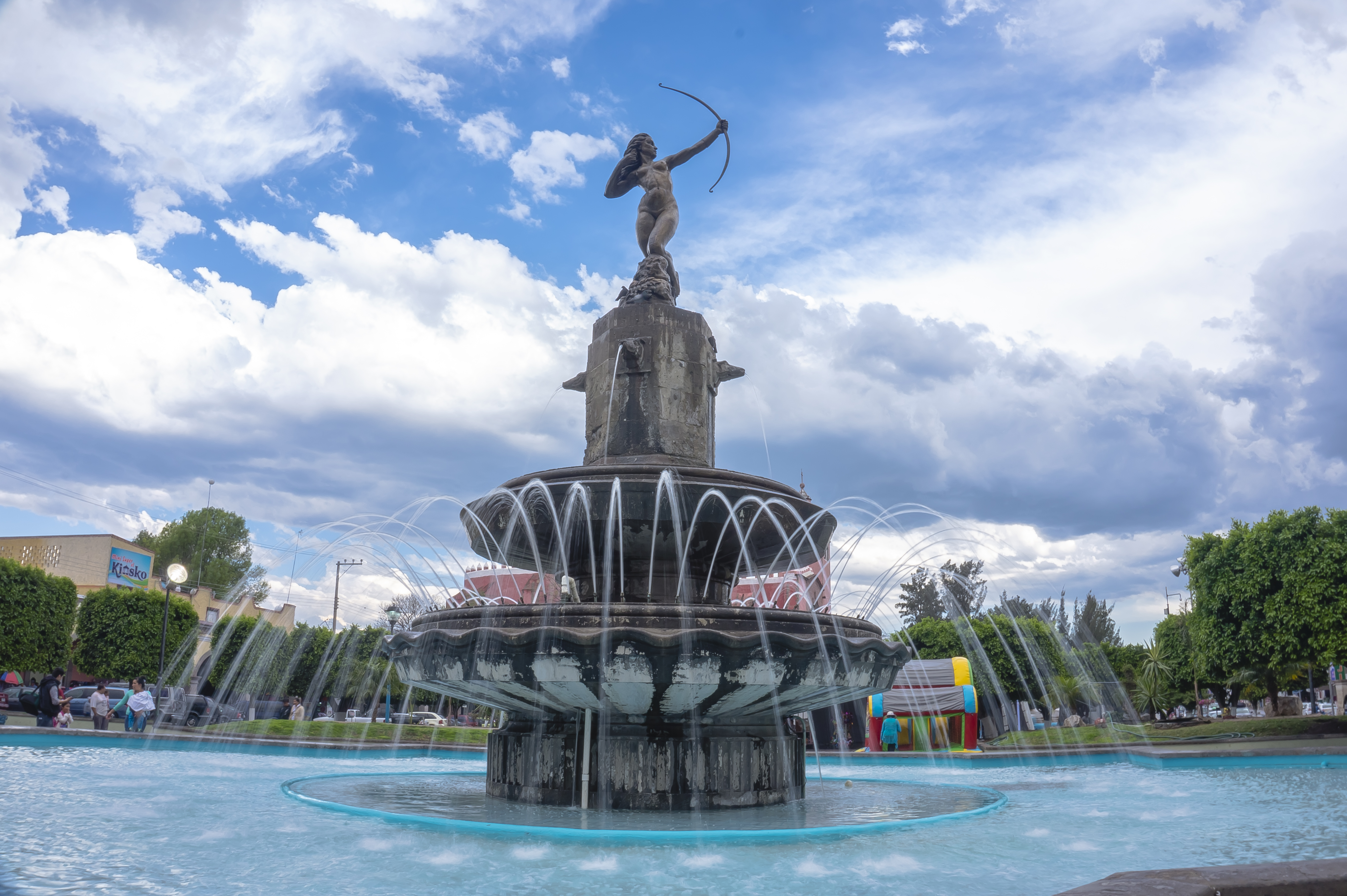 The Huntress Diana Fountain